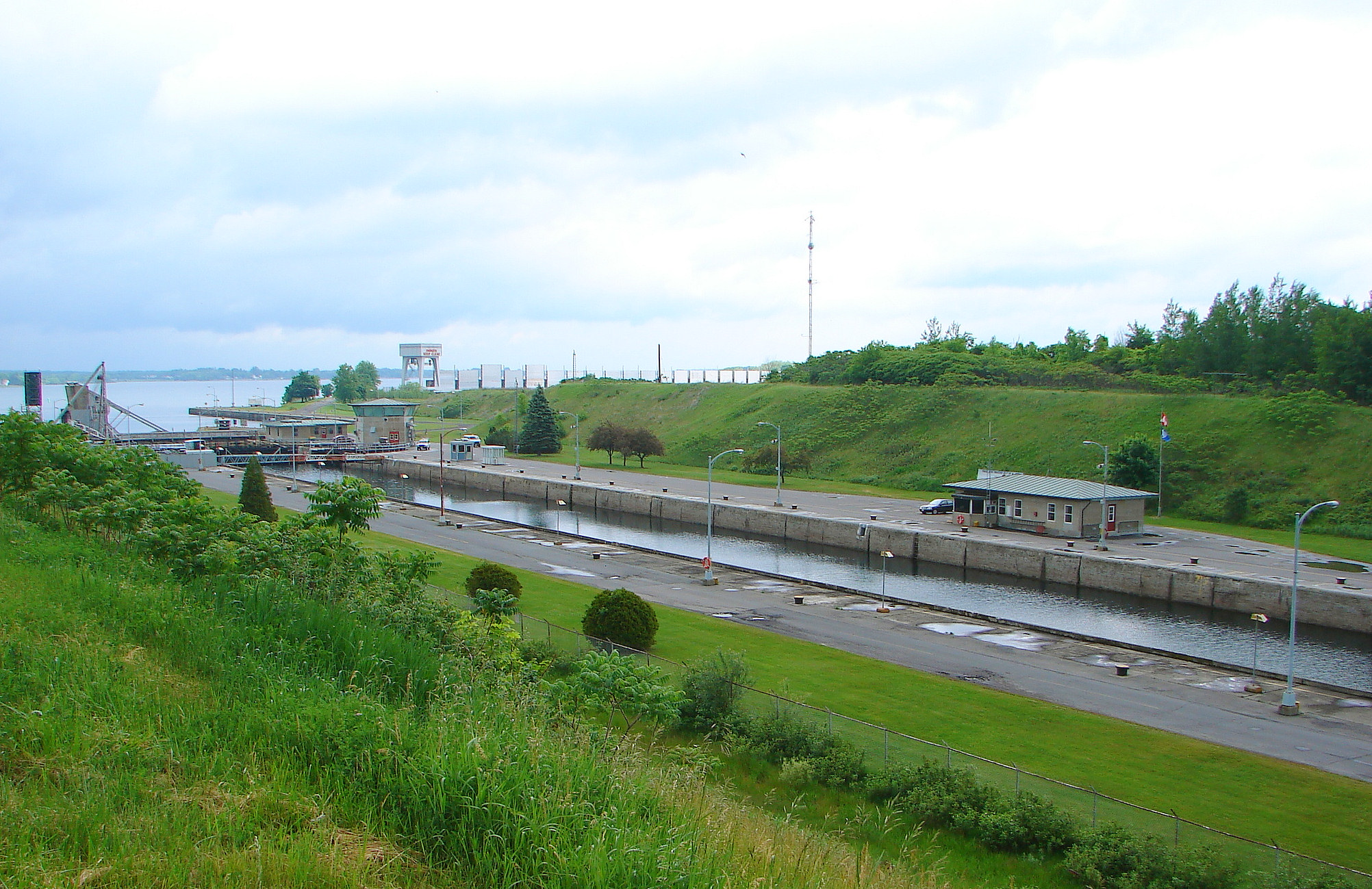 Iroquois Locks of the Saint Lawrence Seaway, Iroquois, Ontario, Canada